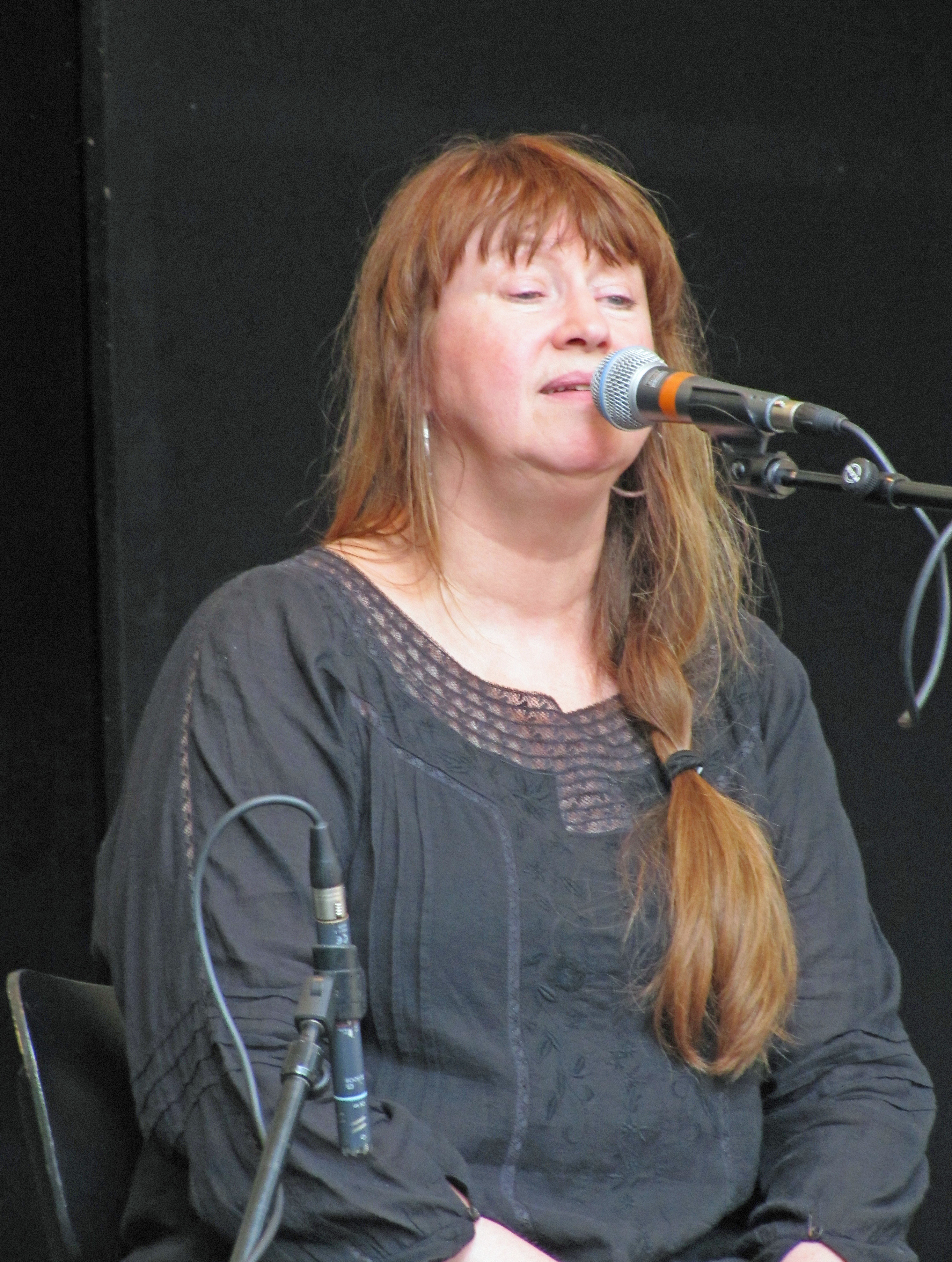 Sidsel Endresen (with Hakon Kornstad), 2010 in Frankfurt am Main, at garden of "Liebieghaus" (museum), Germany.